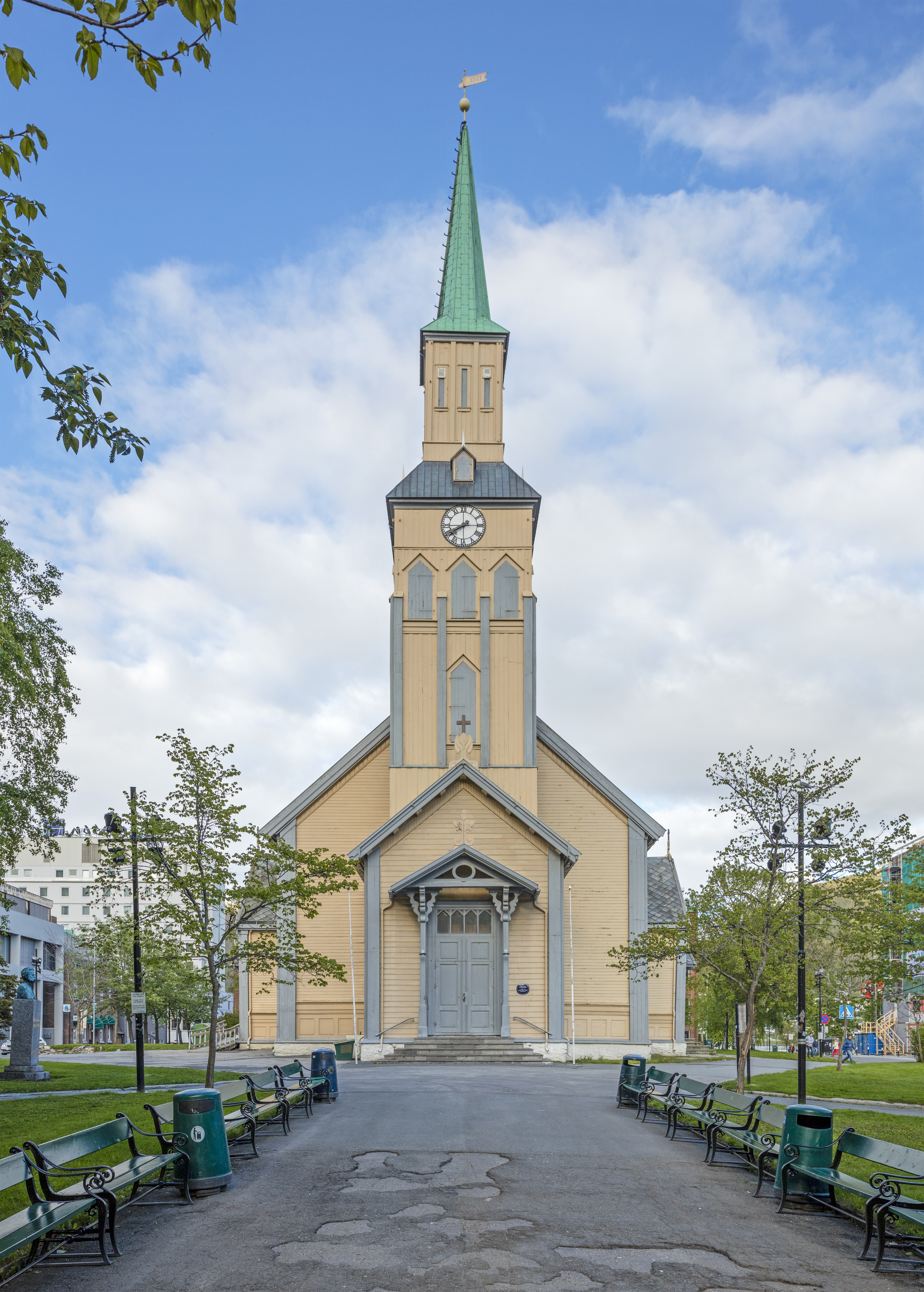 Tromsø Cathedral Wikidata has entry Q2296475 with data related to this item.